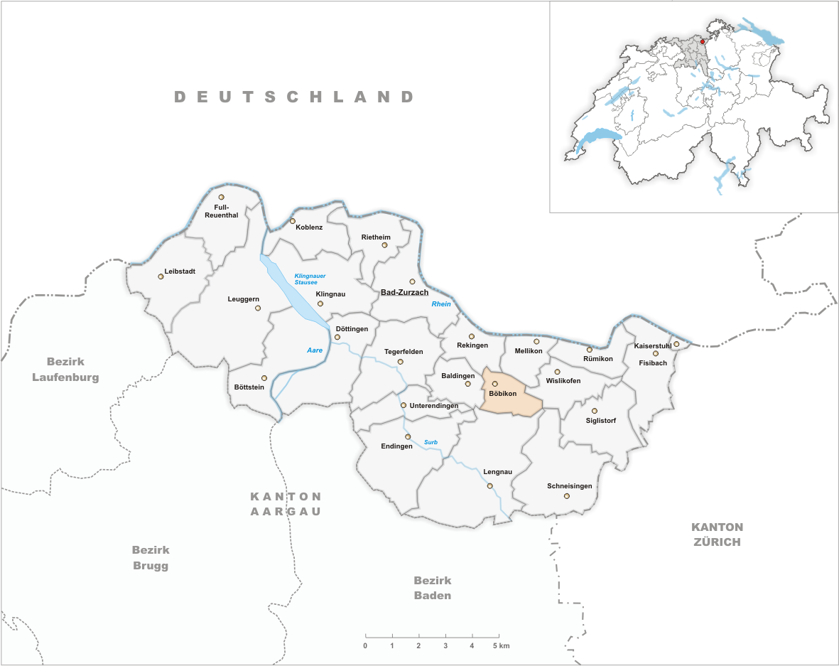 Municipality Böbikon